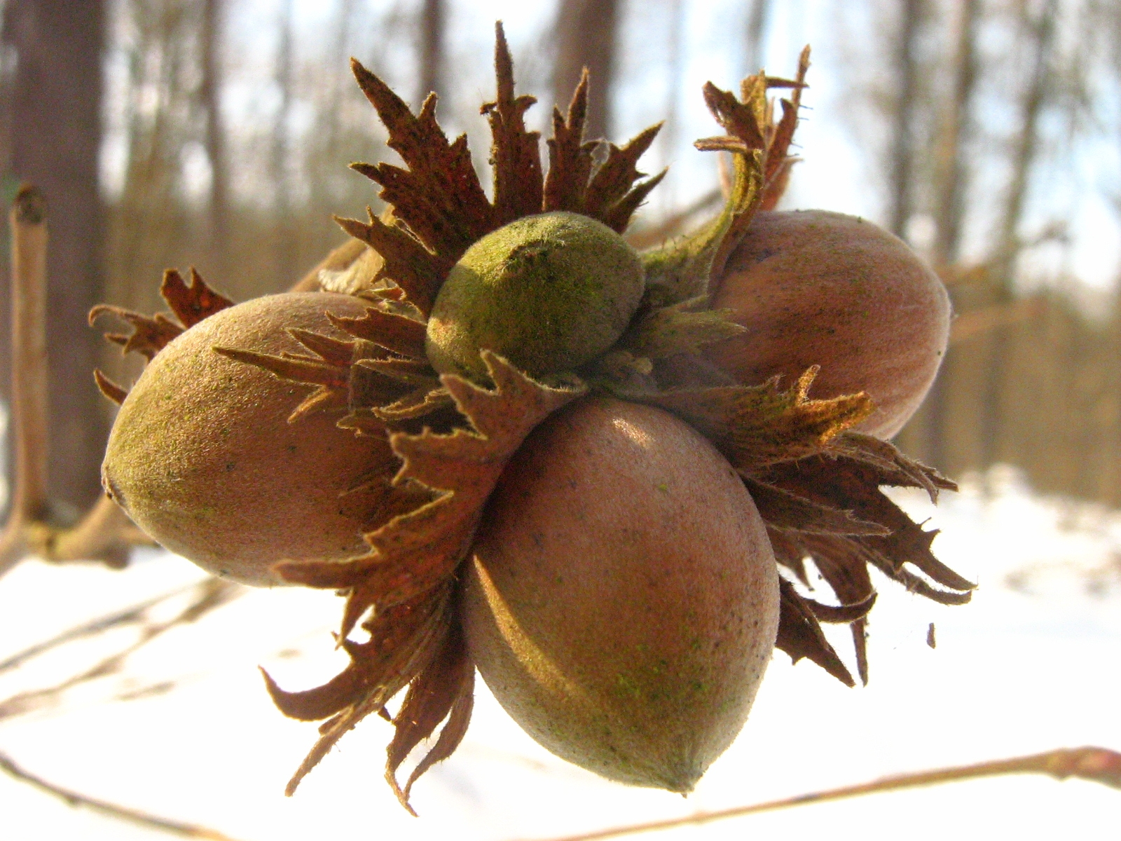 Corylus avellana